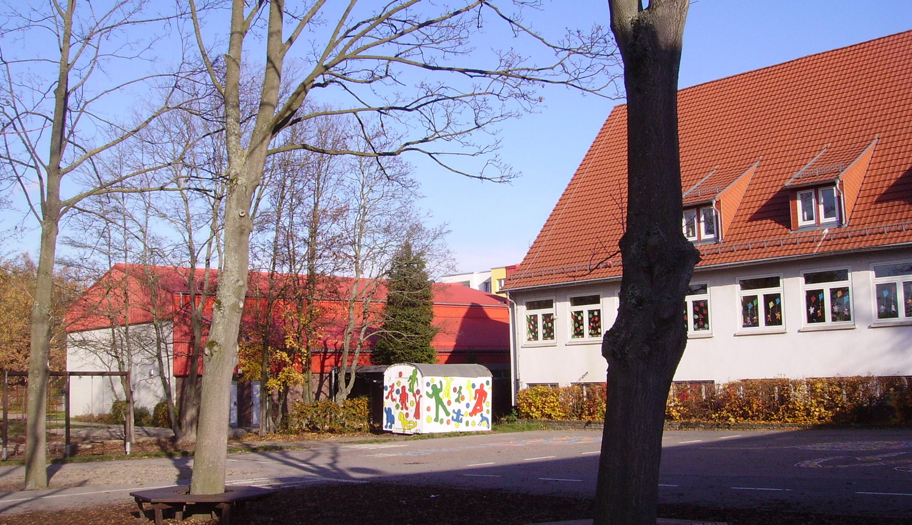 Birkenheide in Rhineland-Palatinate, Germany